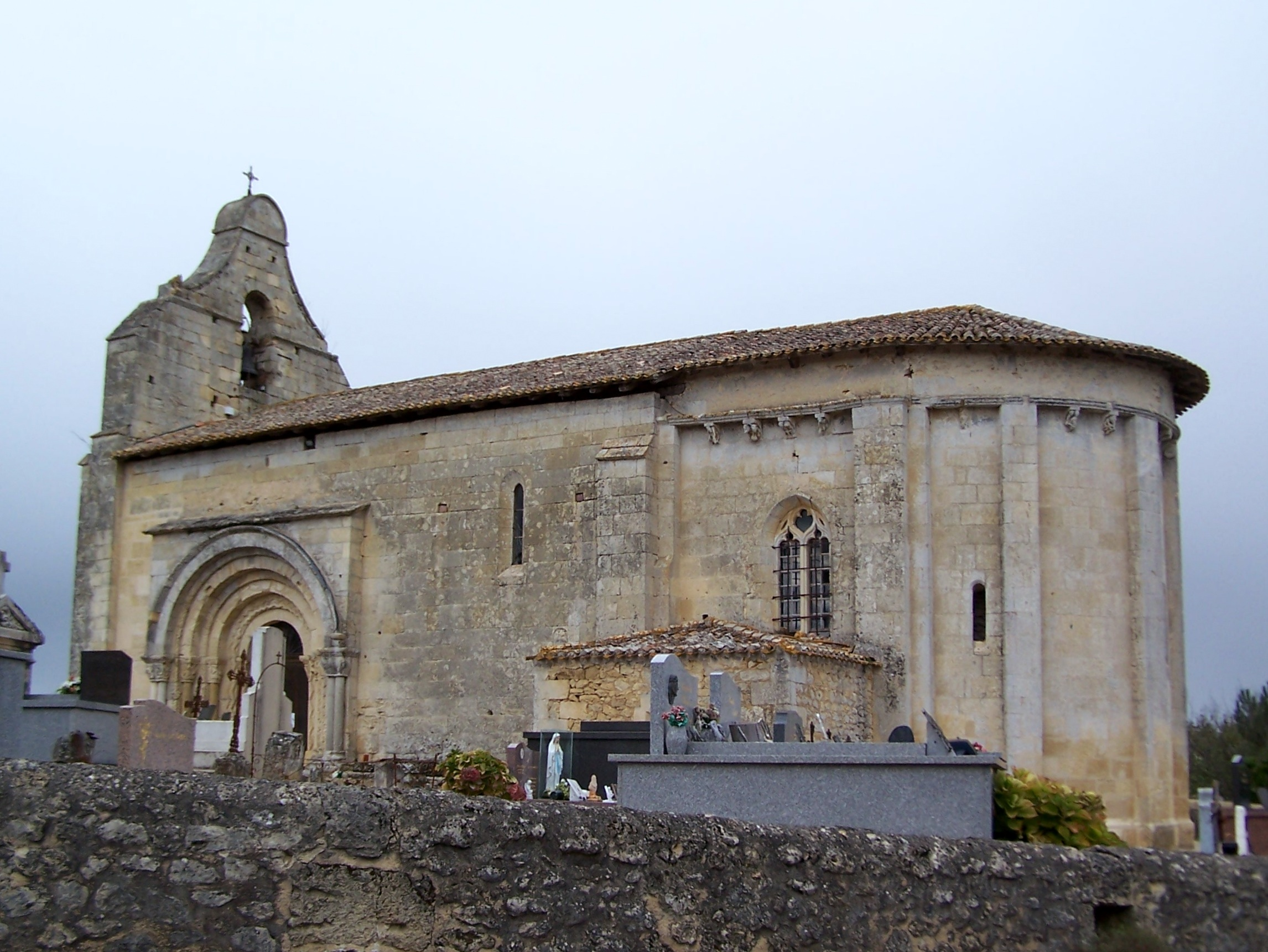 Saint Christopher church of Courpiac (Gironde, France)